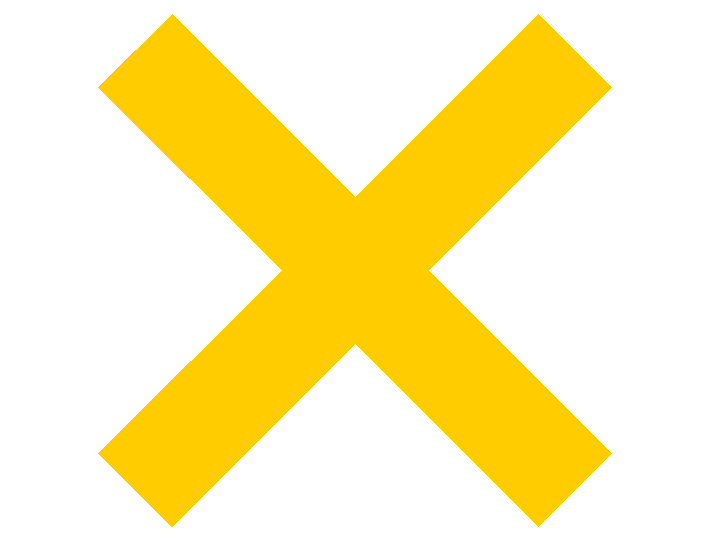 Mark of Ww2 GermanDivision Panzer 2 - 1939-1940